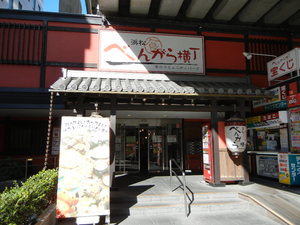 Hamamatsu-Bengara-Yokocho_Shizuoka. 静岡県浜松市にある「べんがら横丁」, Hamamatsu.